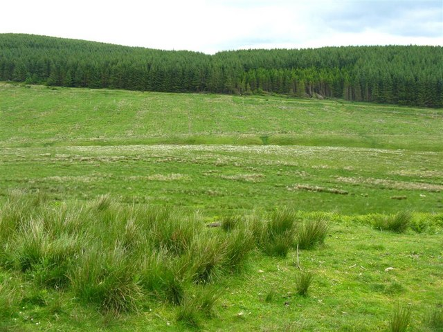 Eskdalemuir Forest Part of the forest seen across the Fingland Burn from Watch Craig